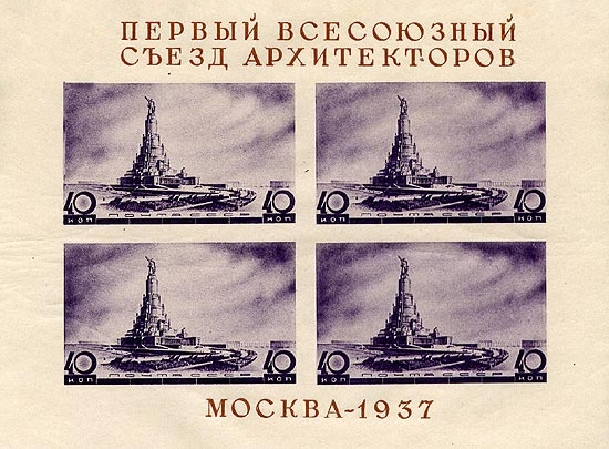 Miniature sheet of the Soviet Union showing the Palace of Soviets, 1937.